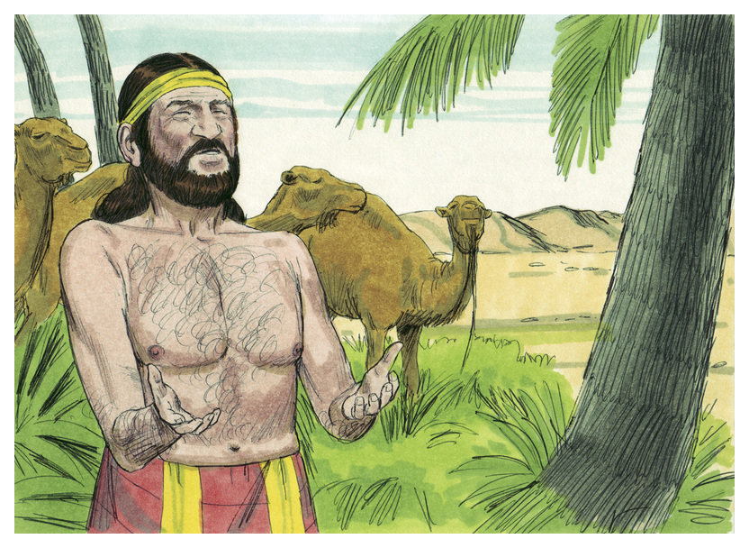 Biblical illustration of Book of Genesis Chapter 24